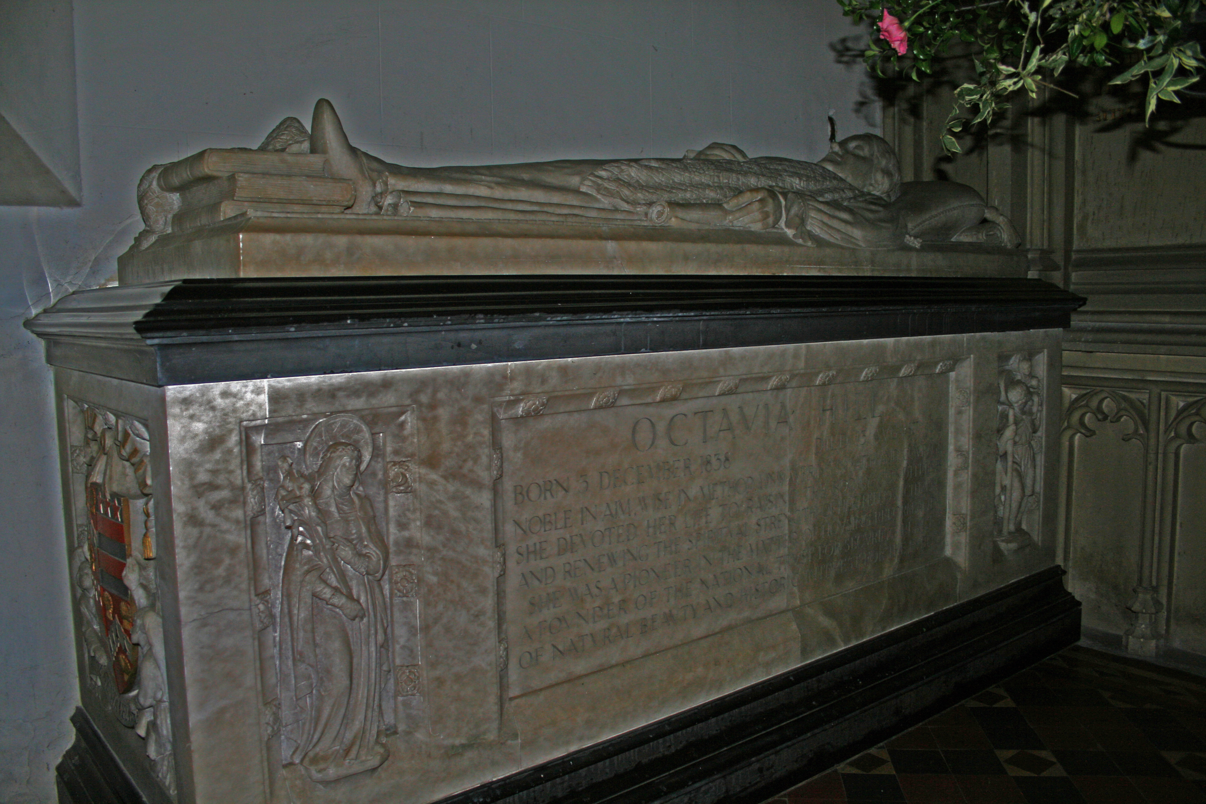 Holy Trinity Church in Crockham Hill : Tombe of Octavia Hill.